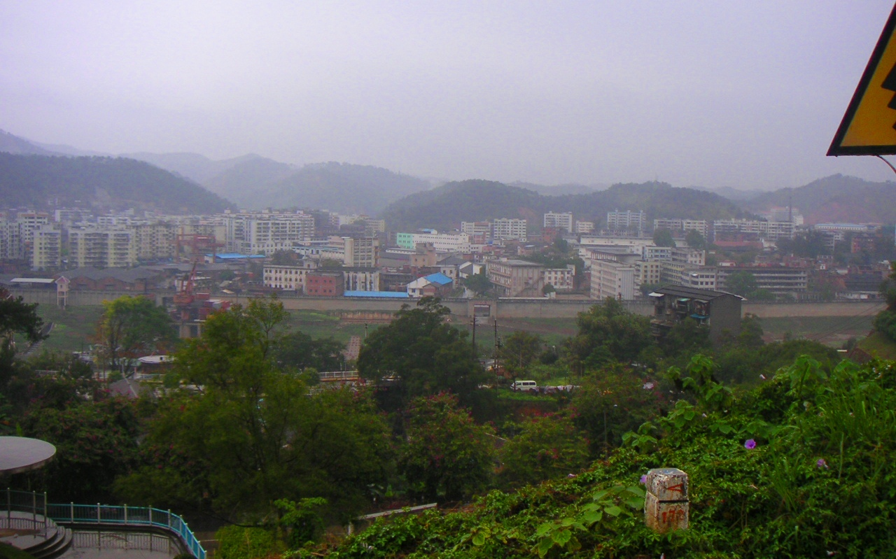 Baihuishan, Wuzhou